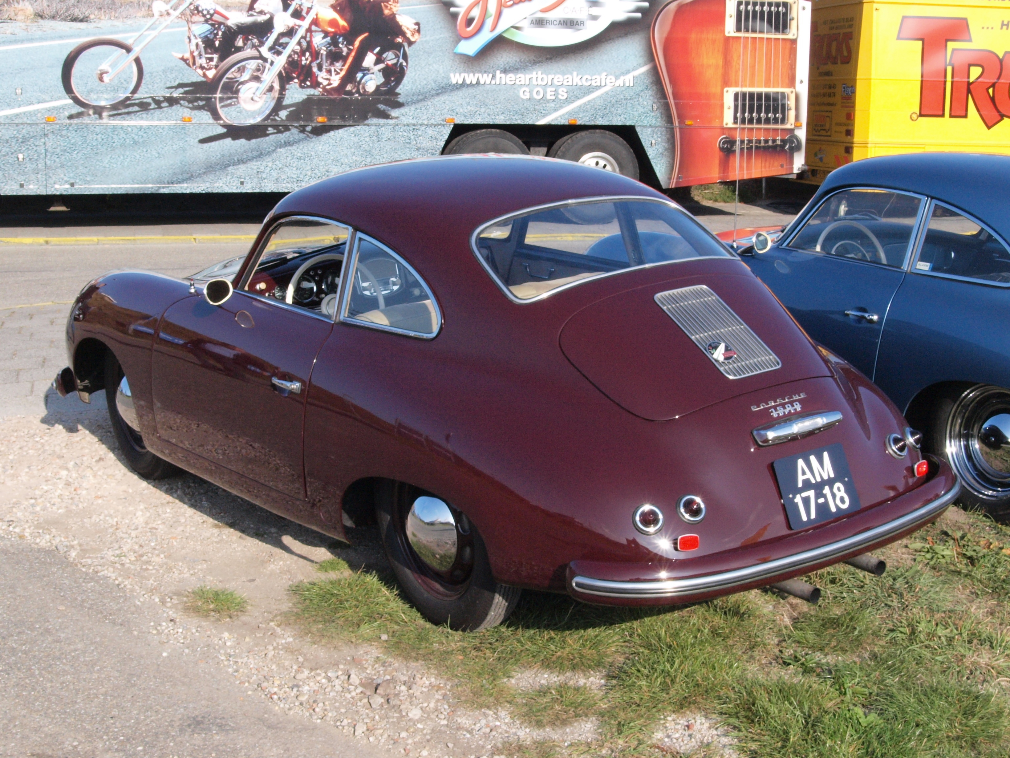 Porsche 356 1500 Super (pre-A), photographed at the Nationaal Oldtimer Festival Zandvoort 2009, The Netherlands.